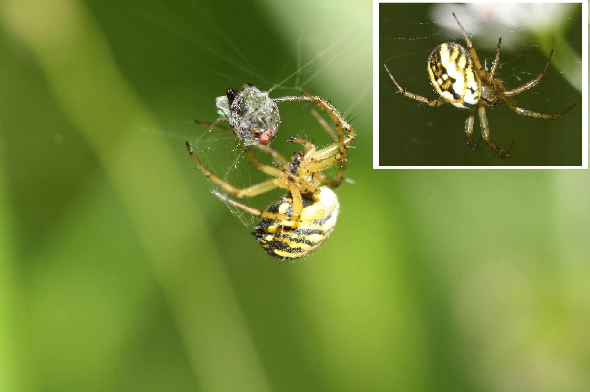 Mangora acalypha - Belgium